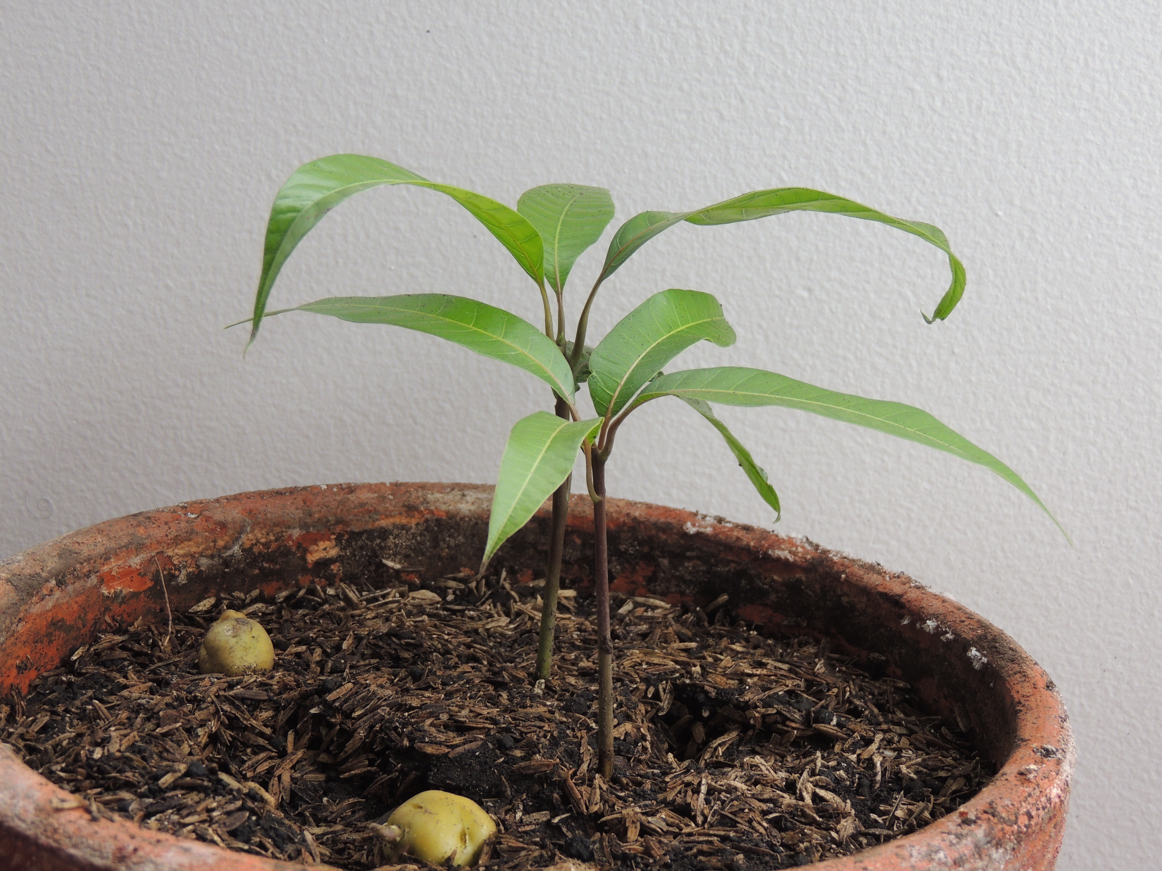 A mango tree sprout sown in a pot. From one single seed two stems sprouted.